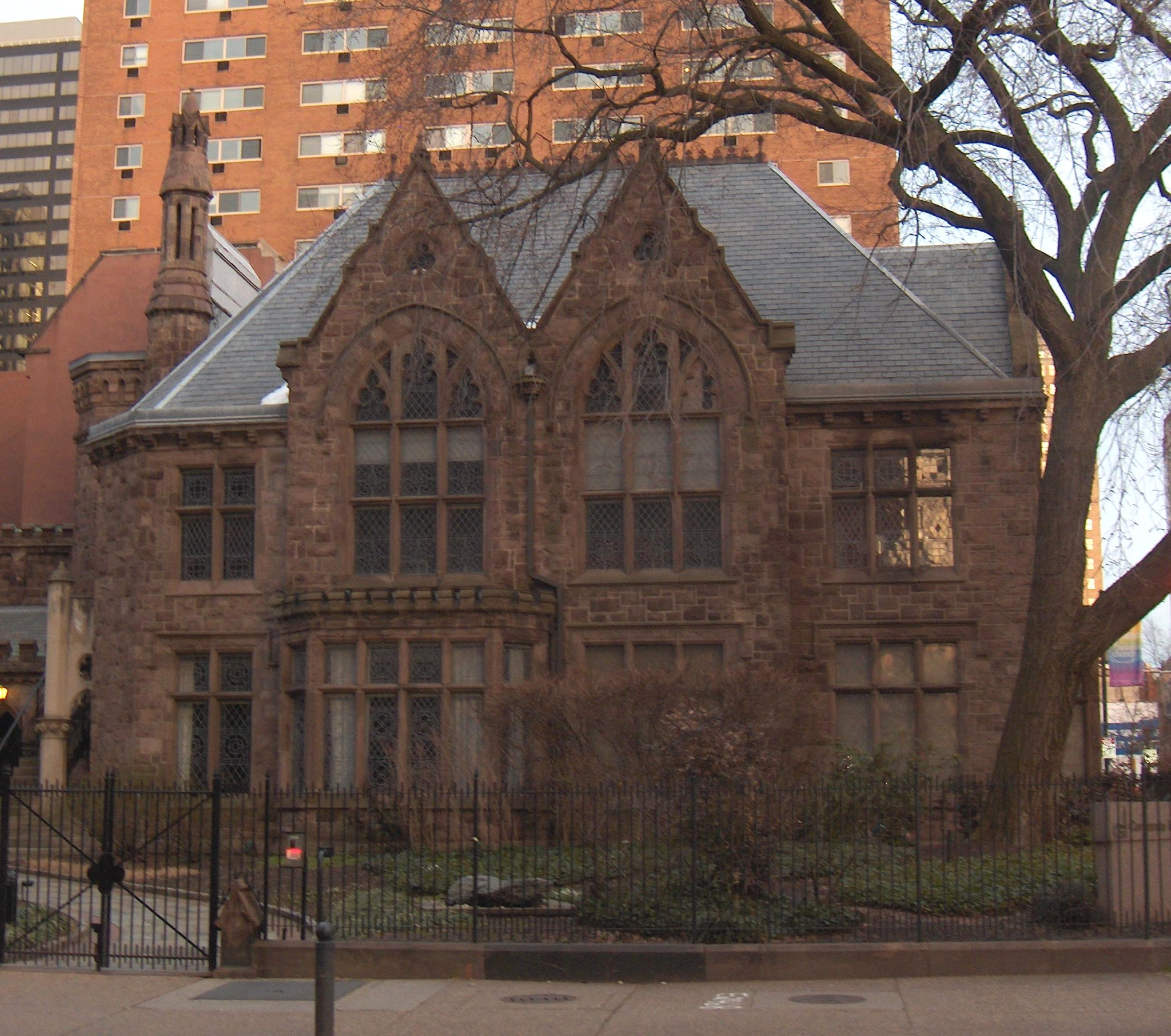 Former Church of the New Jerusalem, 2129 Chestnut St. Philadelphia, Pennsylvania 19103, now offices. Designed 1881 by Theophilus Parsons Chandler.